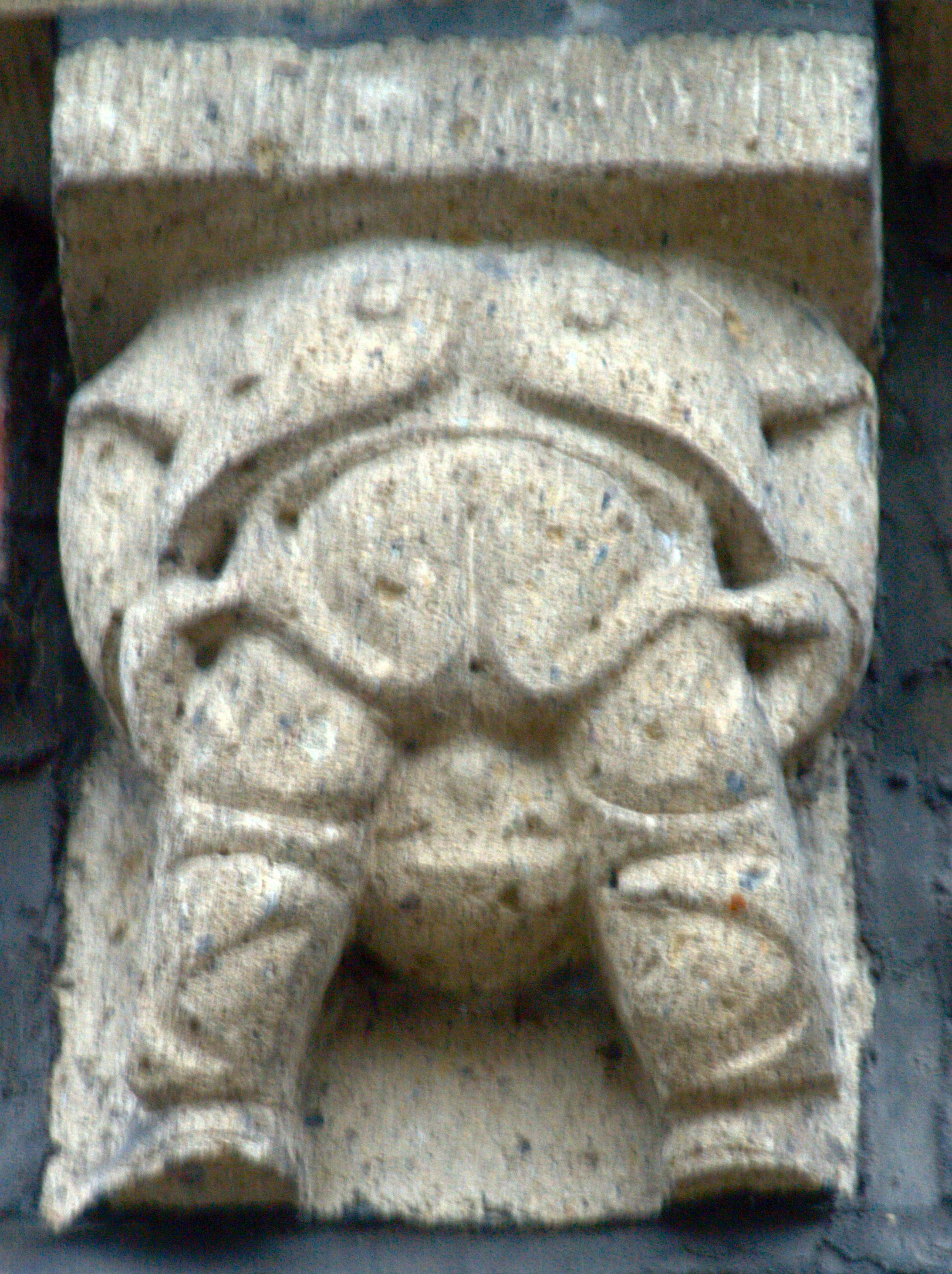 Sculpture “Arsch gezeigt” at the tower of restaurent “Kruse Baimken” in Münster